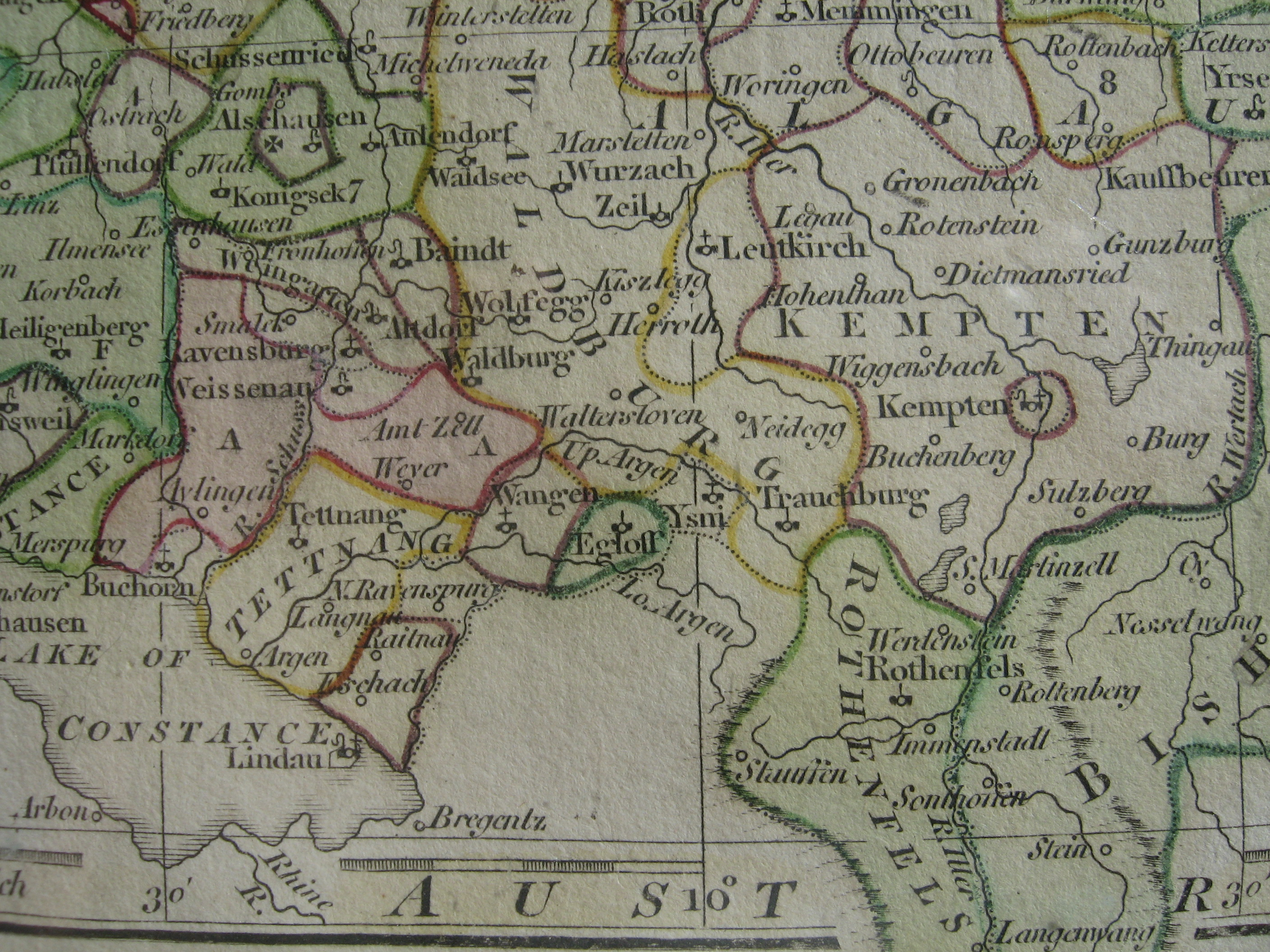 It was in Swabia, and particularly in southeastern Swabia, that the highest concentration of tiny Imperial Estates -- Free Imperial Cities such as Isny, Leutkirch, Wangen, Pfullendorf, Buchhorn, Lindau, Prince-abbeys such as Weingarten, Salmansweiler and Baindt, and counties and lordships such as Waldburg, Egloff and Königsegg -- were to be found in the Holy Roman Empire. Cropped from a map of Swabia published by British printer R. Wilkinson, 1802.